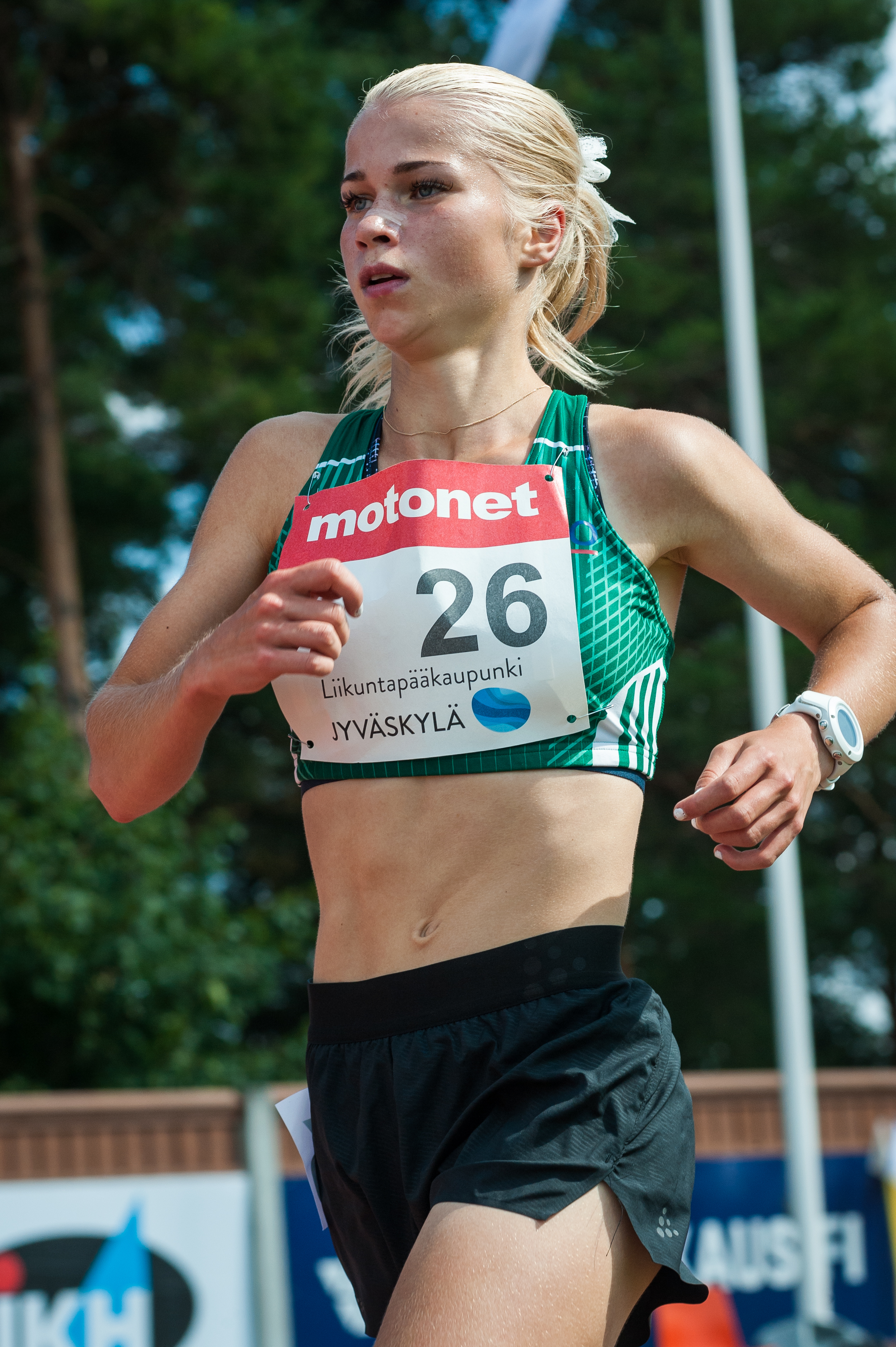 Women's 5000 m competition at the 2018 Kalevan Kisat, the Finnish championships in athletics, in Jyväskylä, Finland.